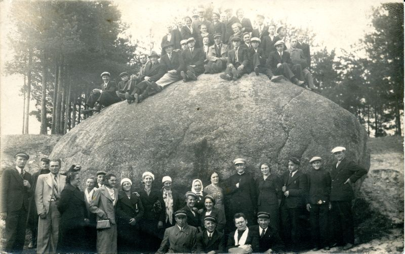 Members of Pavasaris organization from Rageliai on an excursion to Puntukas stone